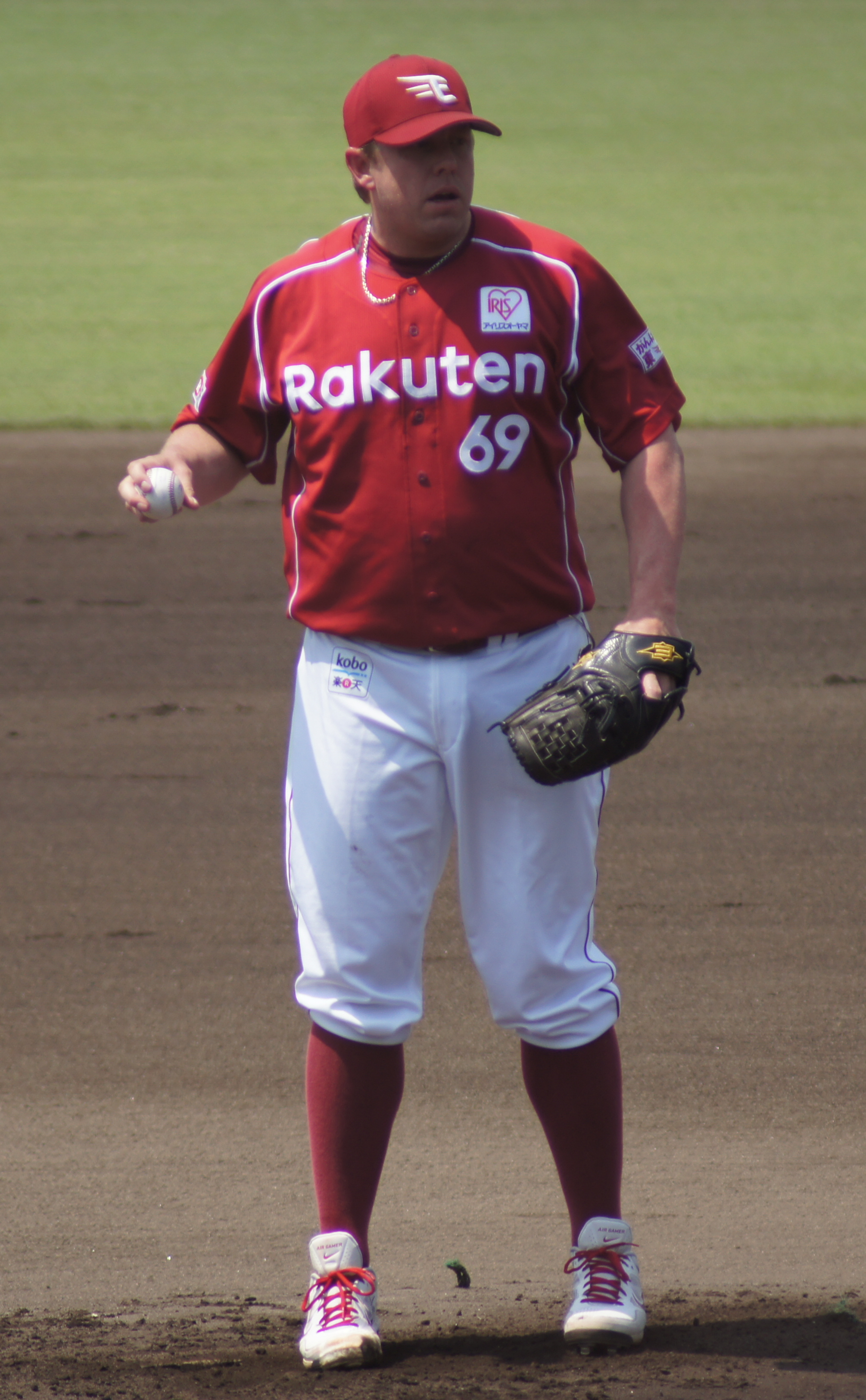 Brandon Duckworth, pitcher of the Tohoku Rakuten Golden Eagles, at Kamagaya Fighters Stadium.